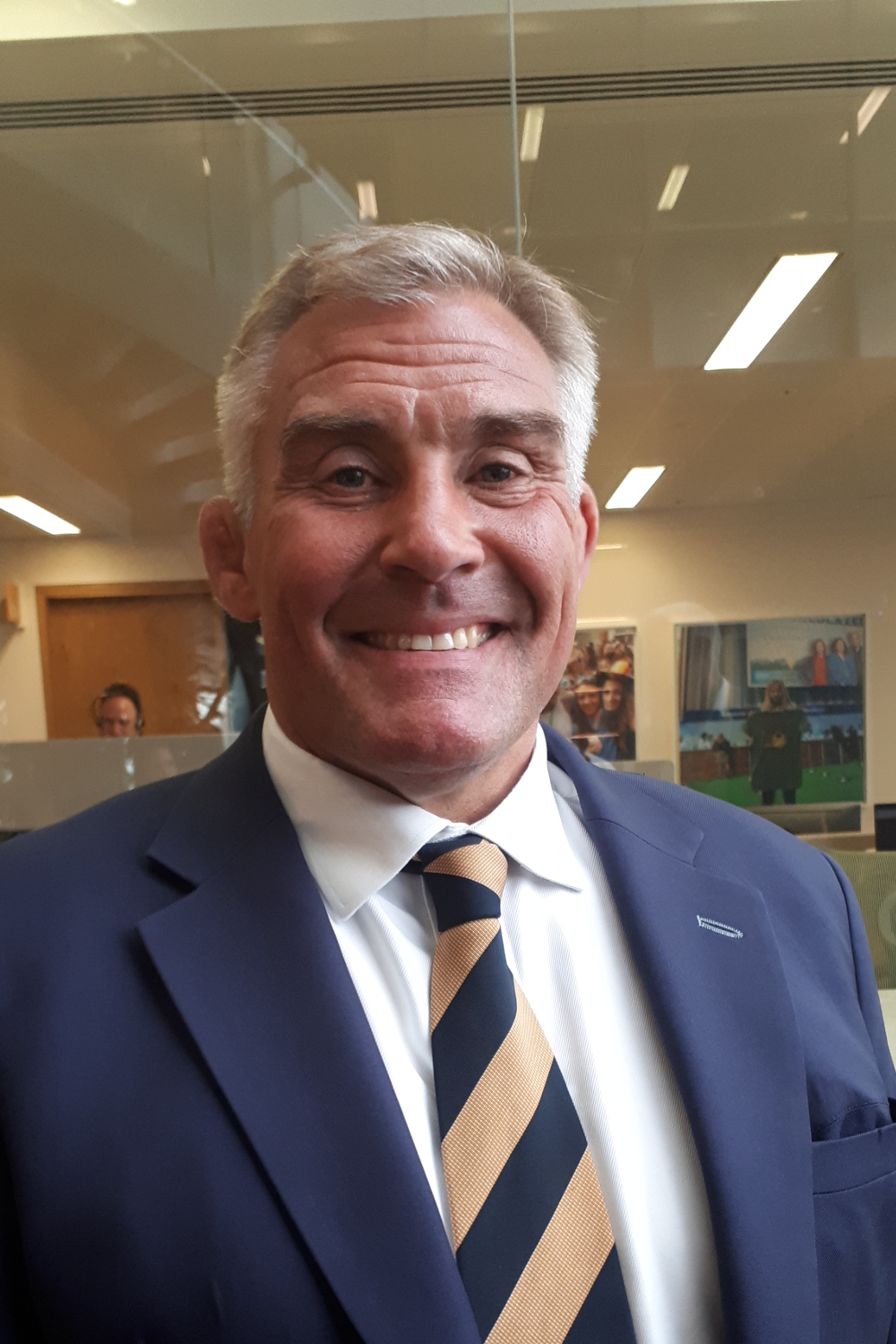 Jason Leonard, photographed in London, 8 June 2018